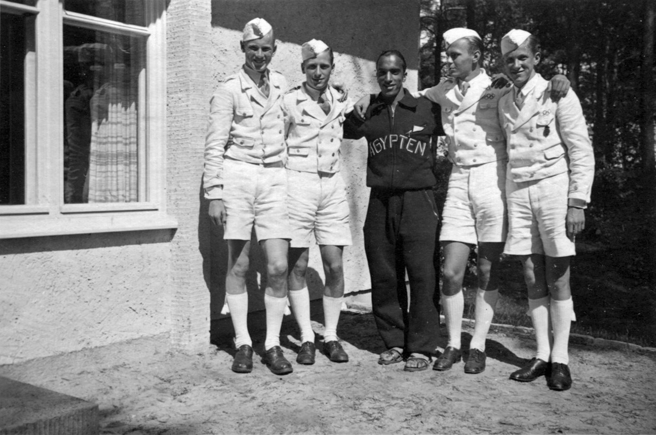 Rashad Shafshak in the Olymic Village in Berlin 1936